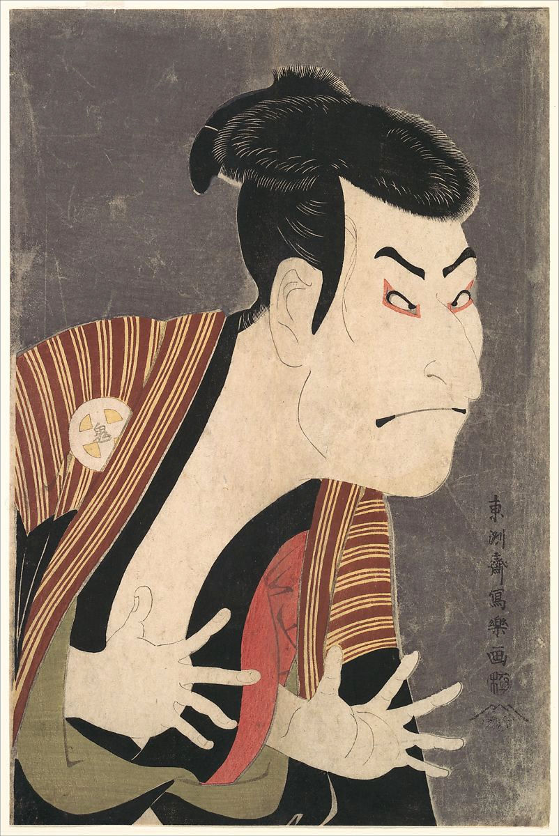 Oniji Ōtani III (aka. Nakazō Nakamura II) as Edobee in the May 1794 production of Koi Nyōbo Somewake Tazuna at Edo Kawarasaki-za theater.Polychrome woodcut print on paper; 15 x 9 7/8 in. (38.1 x 22.9 cm) Henry L. Phillips Collection, Bequest of Henry L. Phillips, 1939 (JP2822)